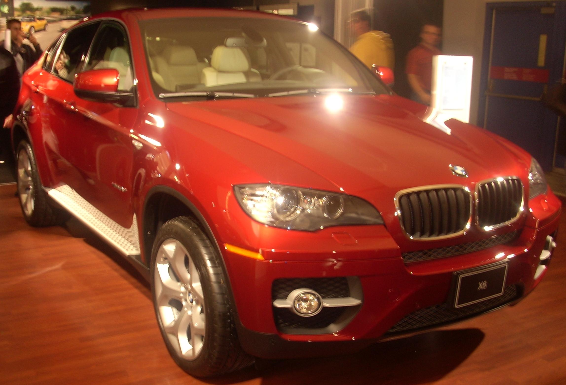 2008 BMW X6 photographed at the Montreal Auto Show.